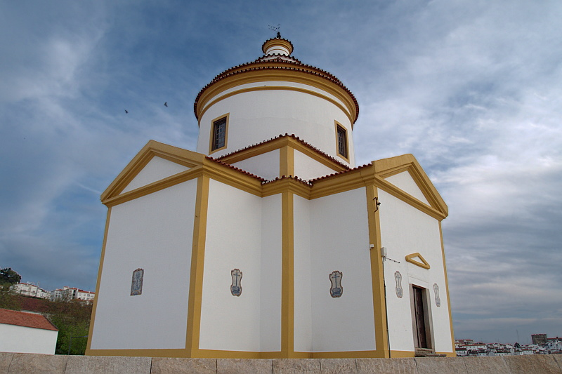 Church in Portalegre, Portugal